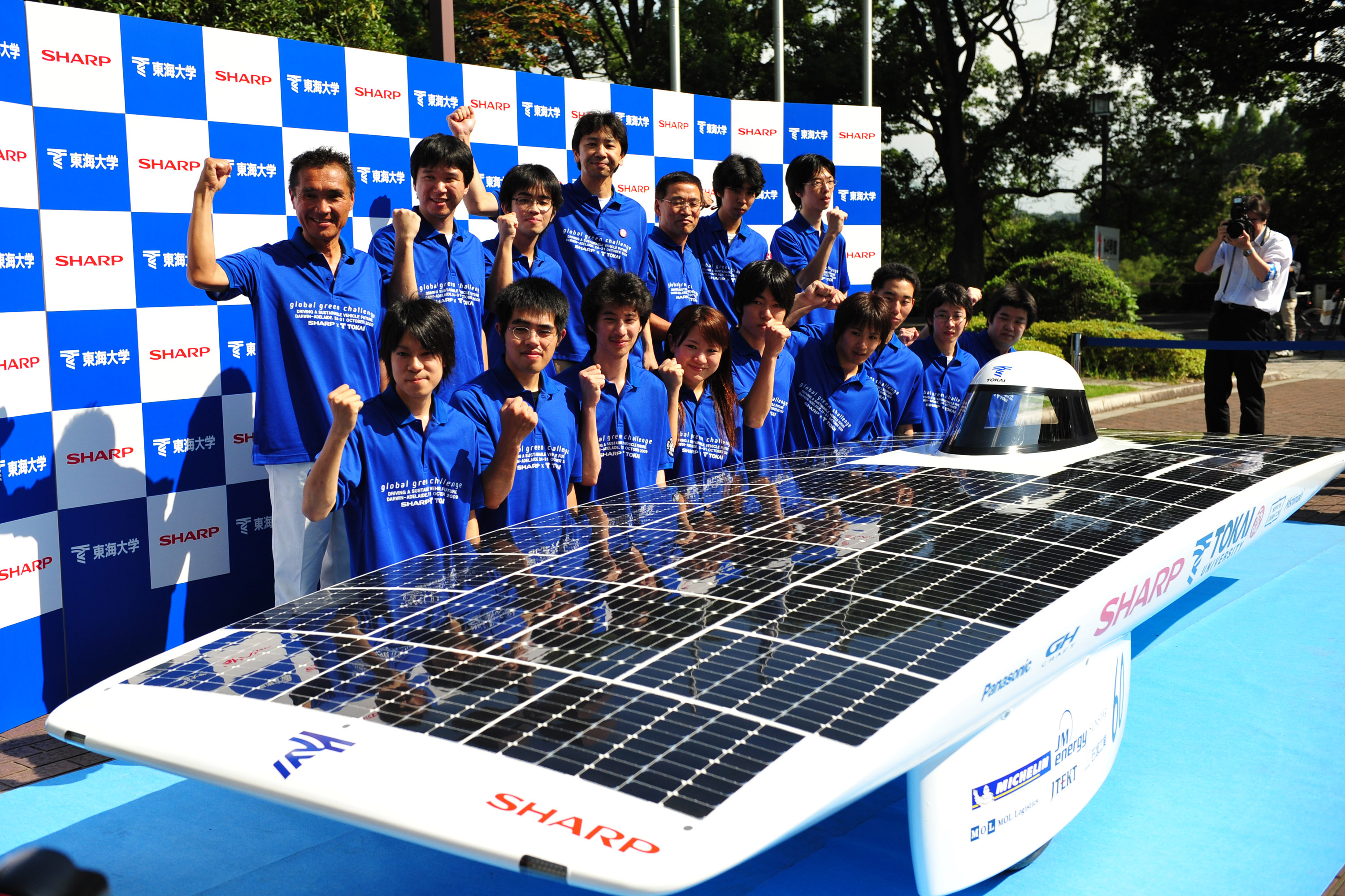 Developed Tokai University's solar car "Tokai Challenger" for Global Green Challenge.